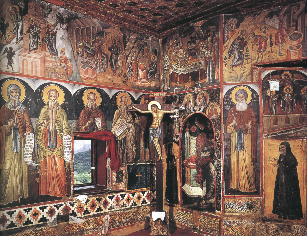 Agios Nikolaos Anapafsas